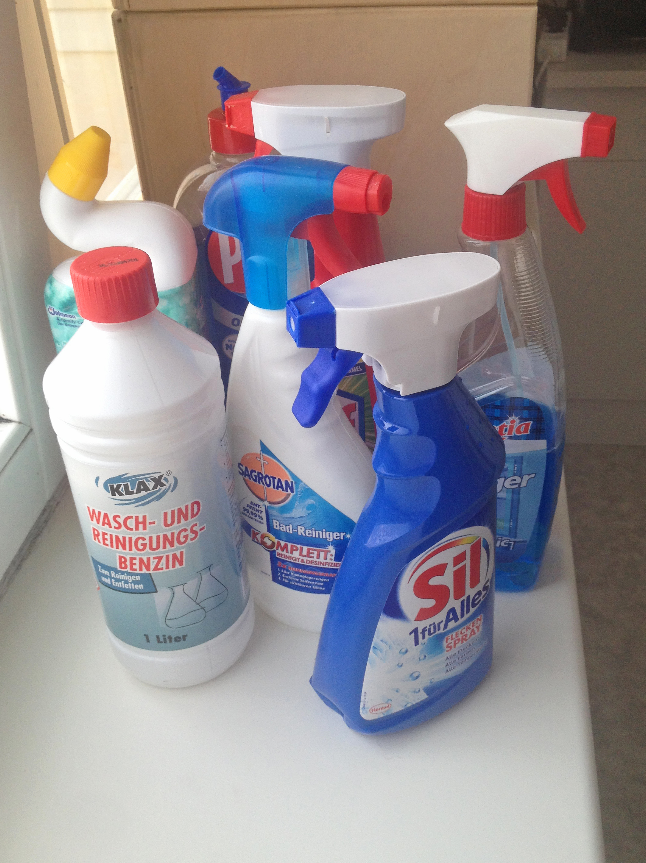 Cleaning agents